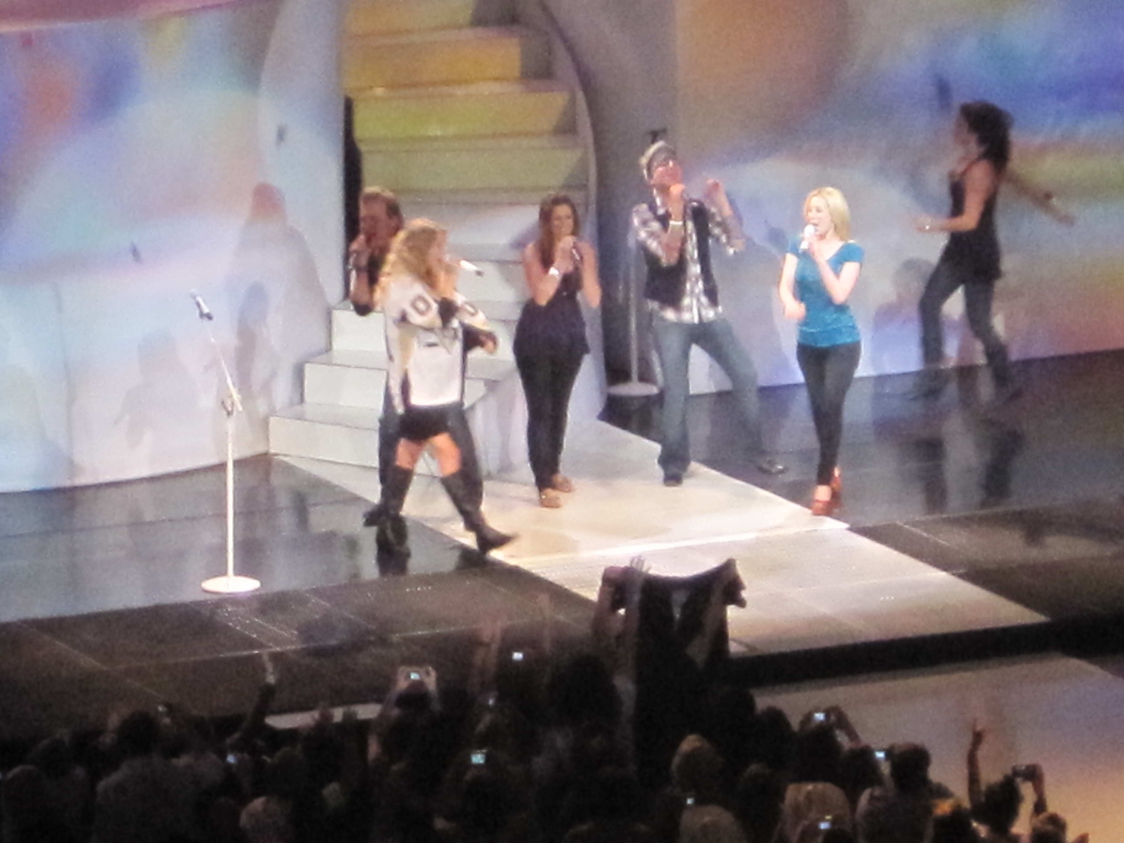 Taylor Swift in Pittsburgh, PA at the Mellon Arena with Kellie Pickler and Gloriana.